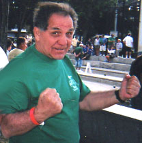 Tony DeMarco 2007, posing in the North End.